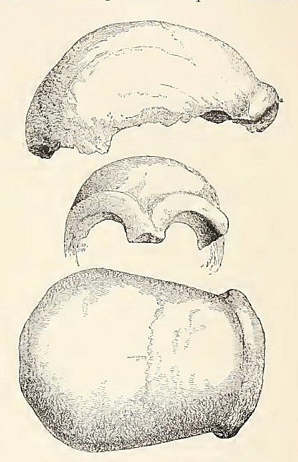 The skull from the Neanderthal cavern, Germany